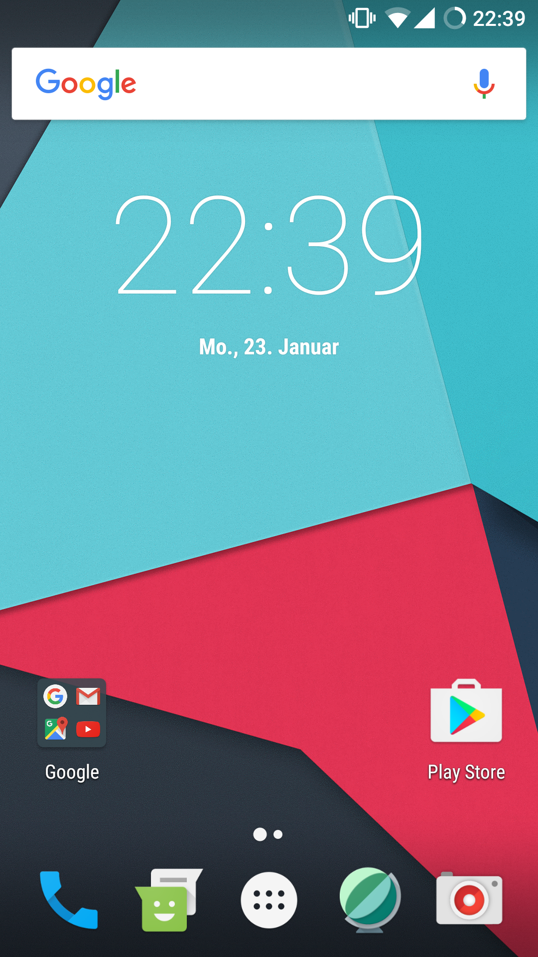 Screenshot of the LineageOS 14.1 nightly build from 23th January 2017 on a OnePlus One